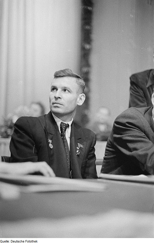 Original image description from the Deutsche Fotothek Pawel Bykow